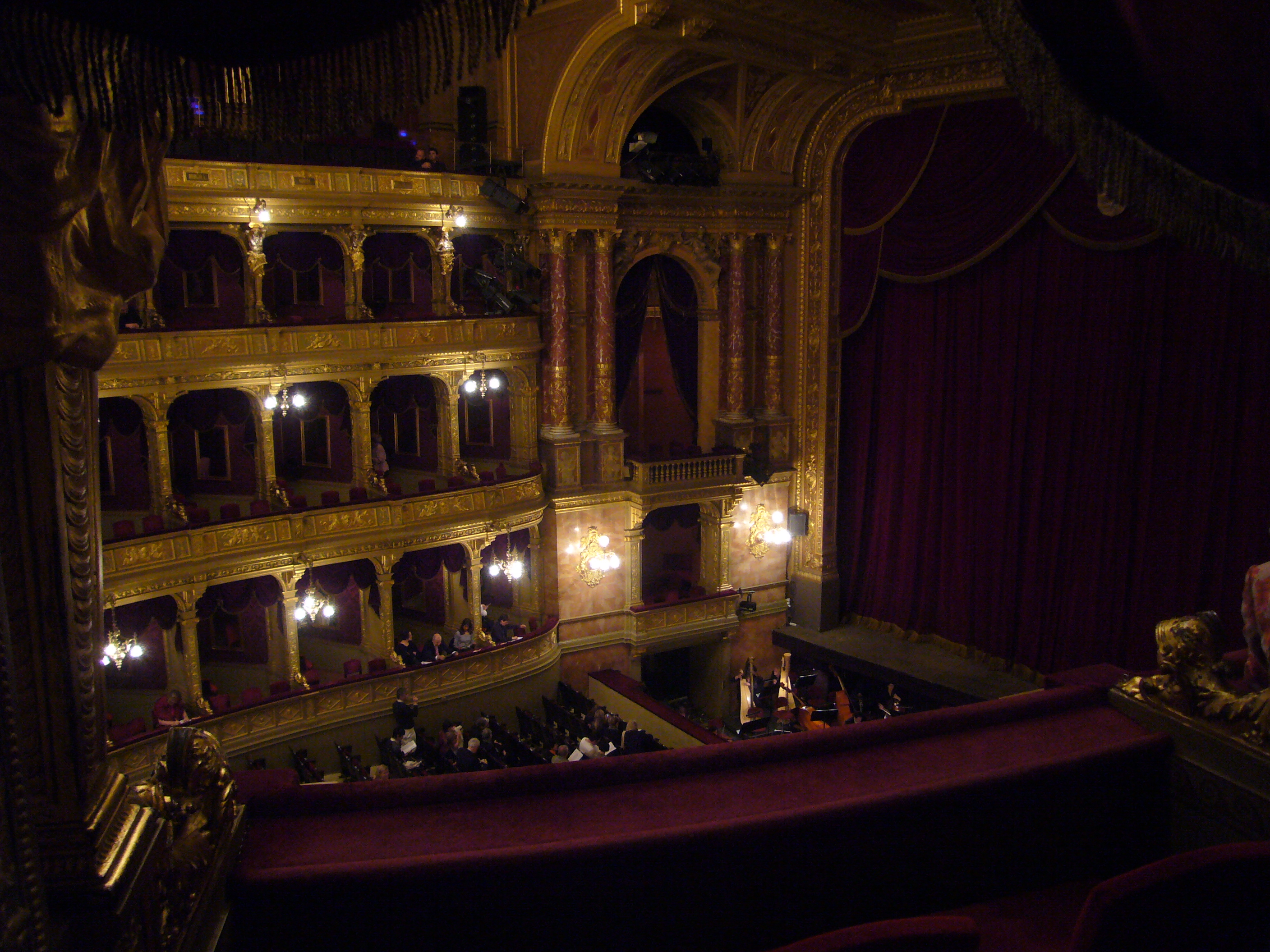 The (partially obstructed, as advertised) view from our seats at the opera in Budapest.